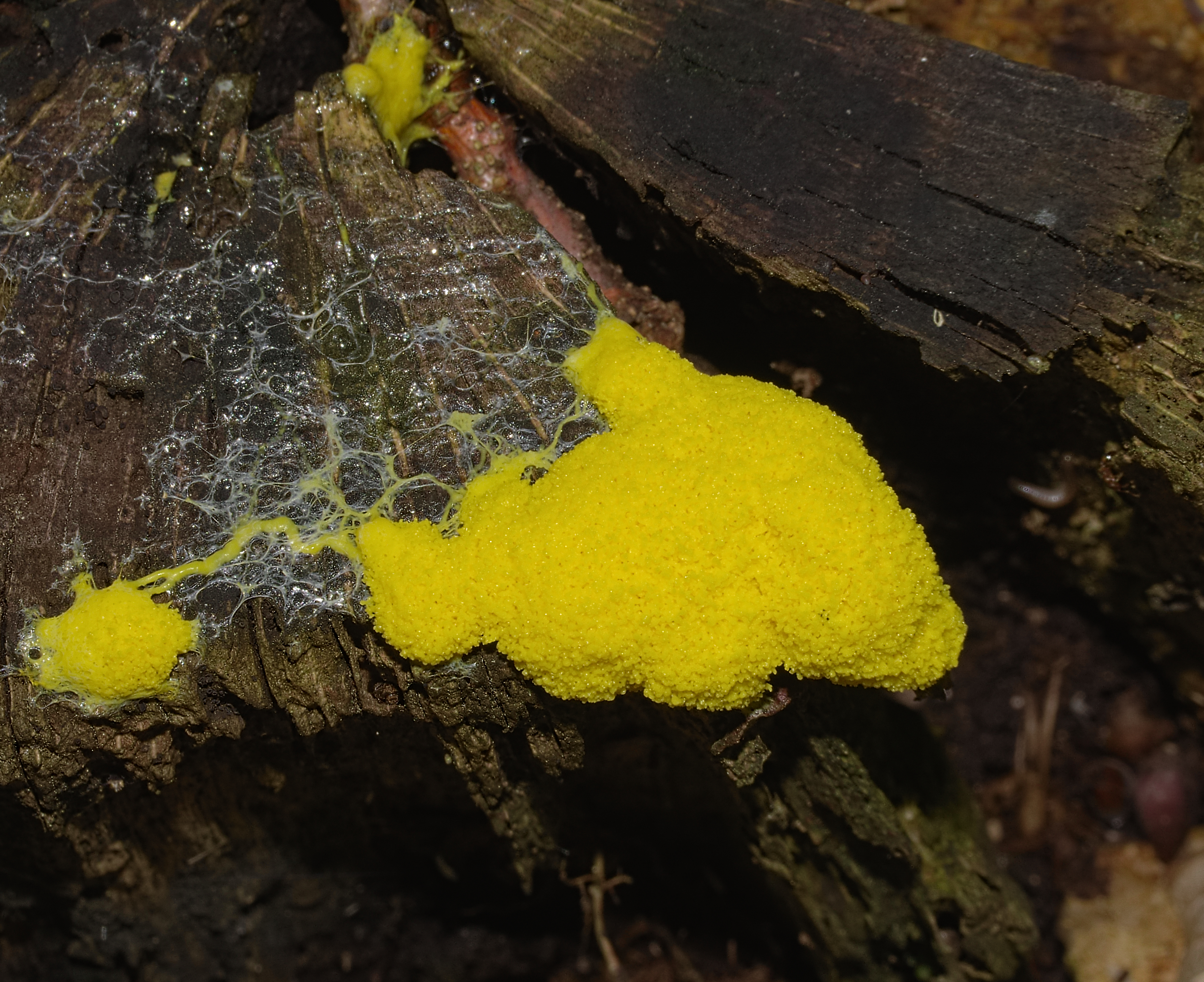 Scrambled egg slime or flowers of tan, Fuligo septica. Taken between Wustrow and Neu Drosedow, Mecklenburg-Western Pomerania, Germany.